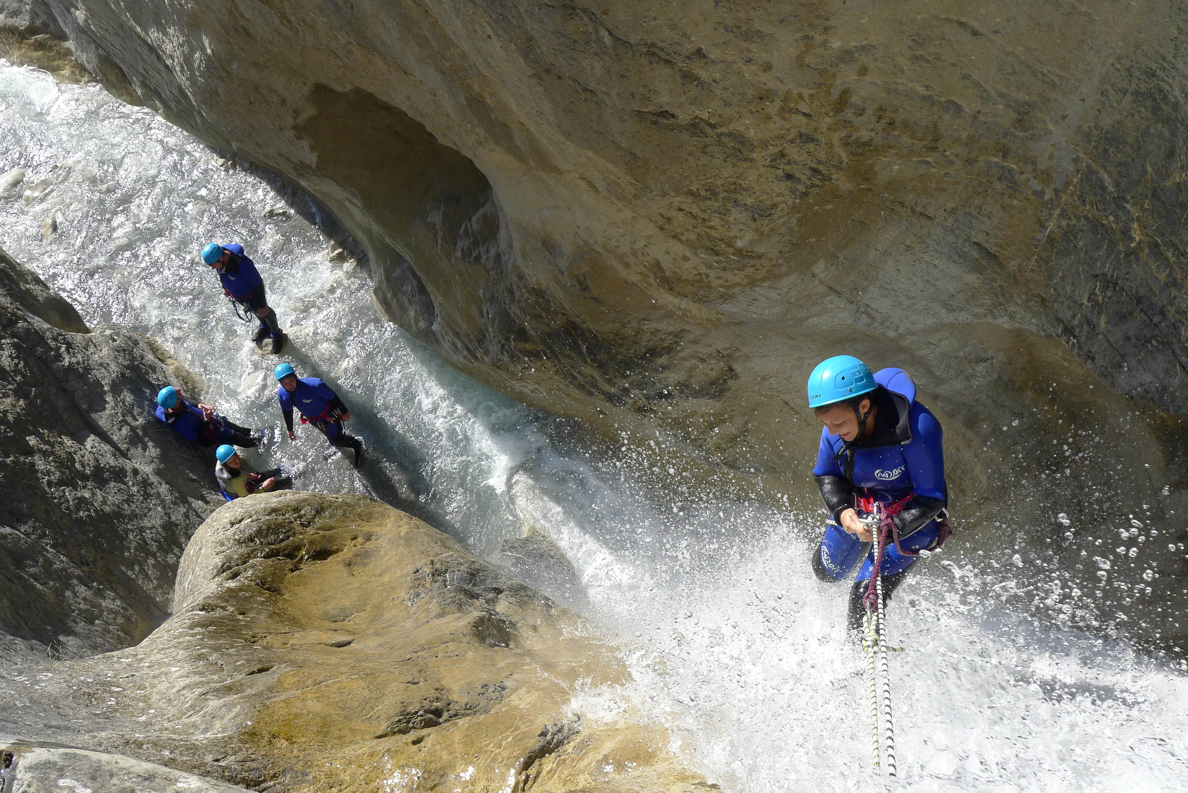 Canyonning